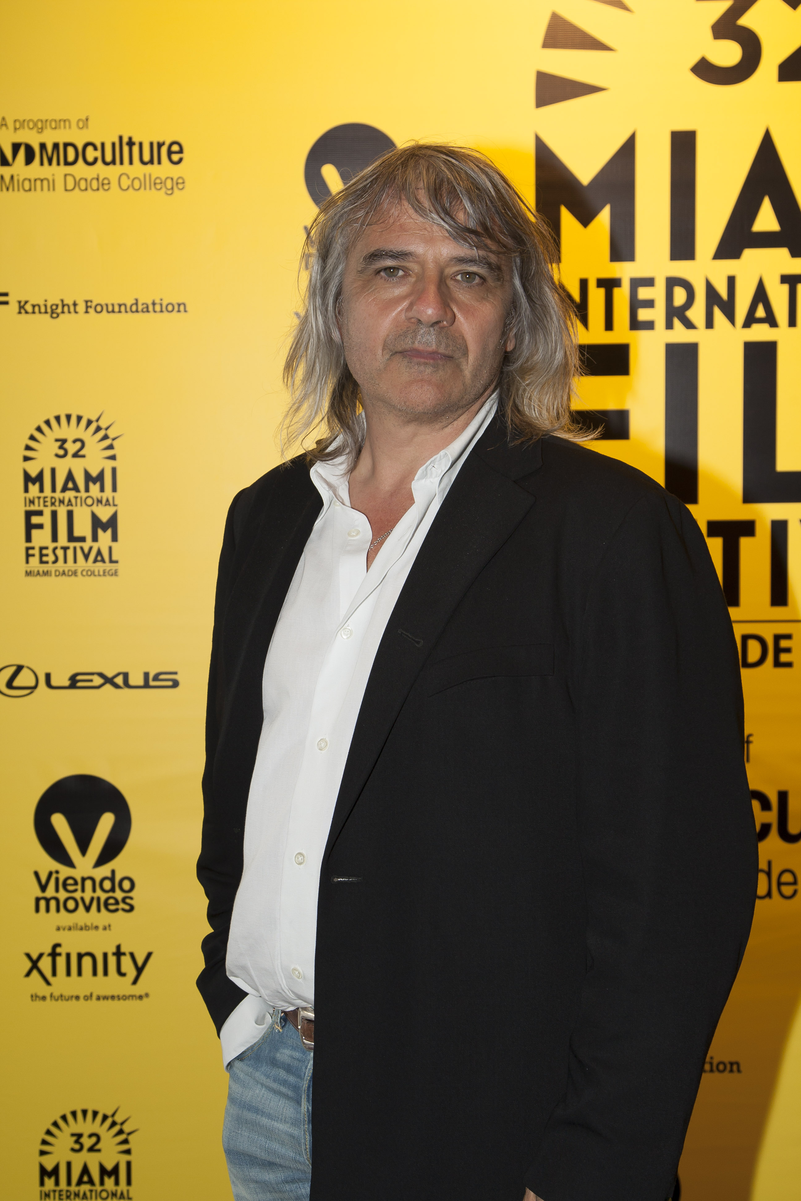 Director Alain Choquart at the Miami Film Festival presentation of LADYGREY at the Tower Theater Mar 11, 2015